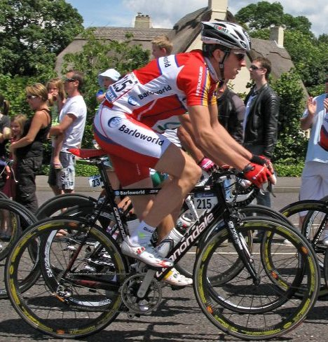 Geraint Thomas at the Tour de France 2007 first stage on July the 8th. Shot from the central reservation of A229.